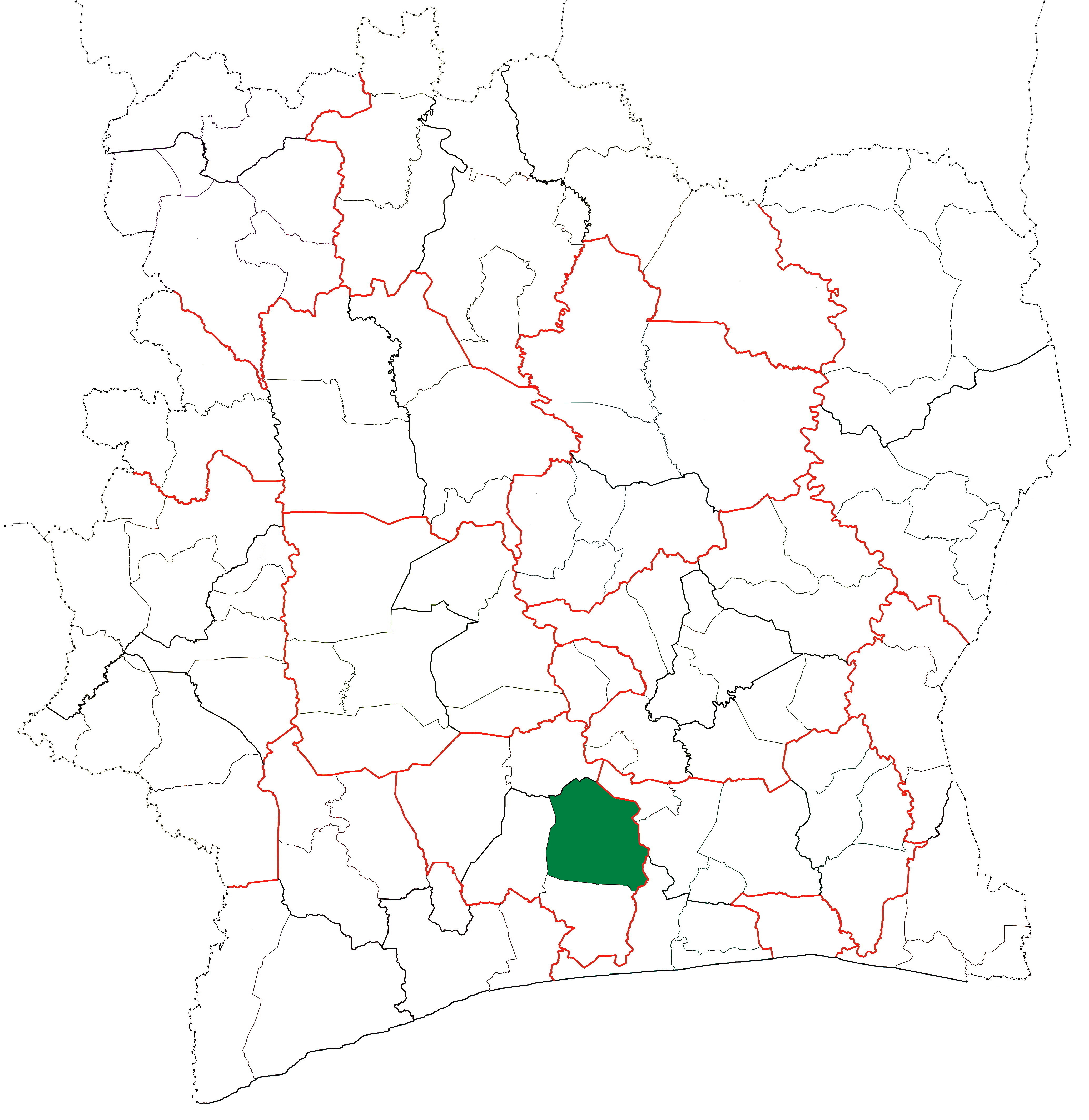 Locator map for Divo Department in Côte d'Ivoire.